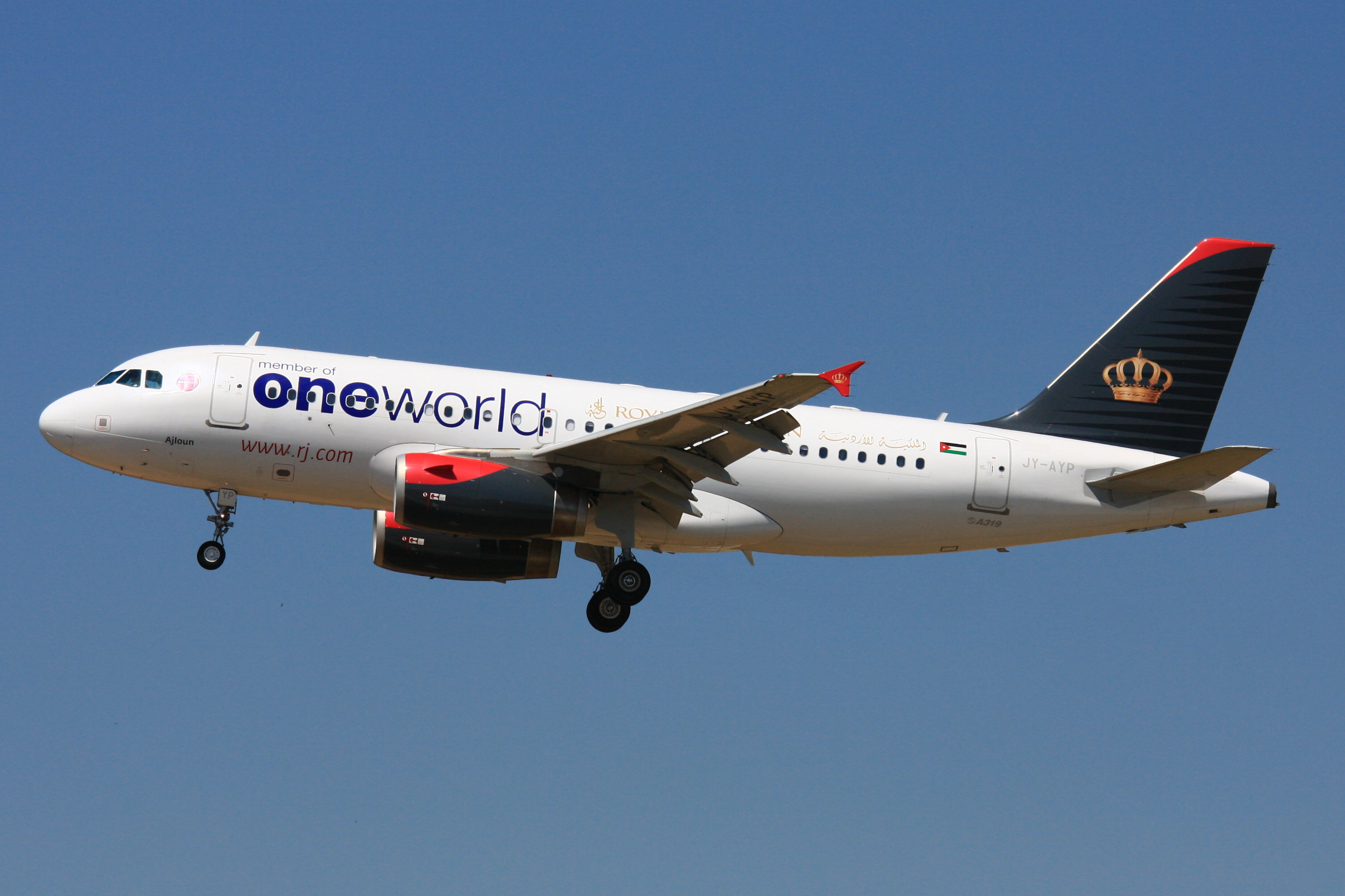 An Airbus A319 of Royal Jordanian landing at Frankfurt Airport